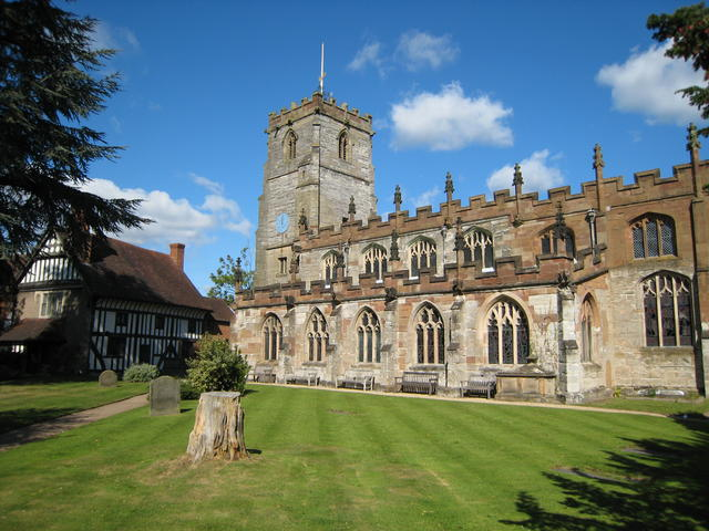 Knowle Parish Church Dedicated to St John the Baptist, St Lawrence and St Anne, this church was built at the behest of Walter Cook, a wealthy native of Knowle, and consecrated on 24th February 1403. It was built to save the 3 mile journey to the Parish Church at Hampton in Arden, a trip which was difficult on foot and made dangerous in the winter by having to cross the frequently swollen River Blythe.